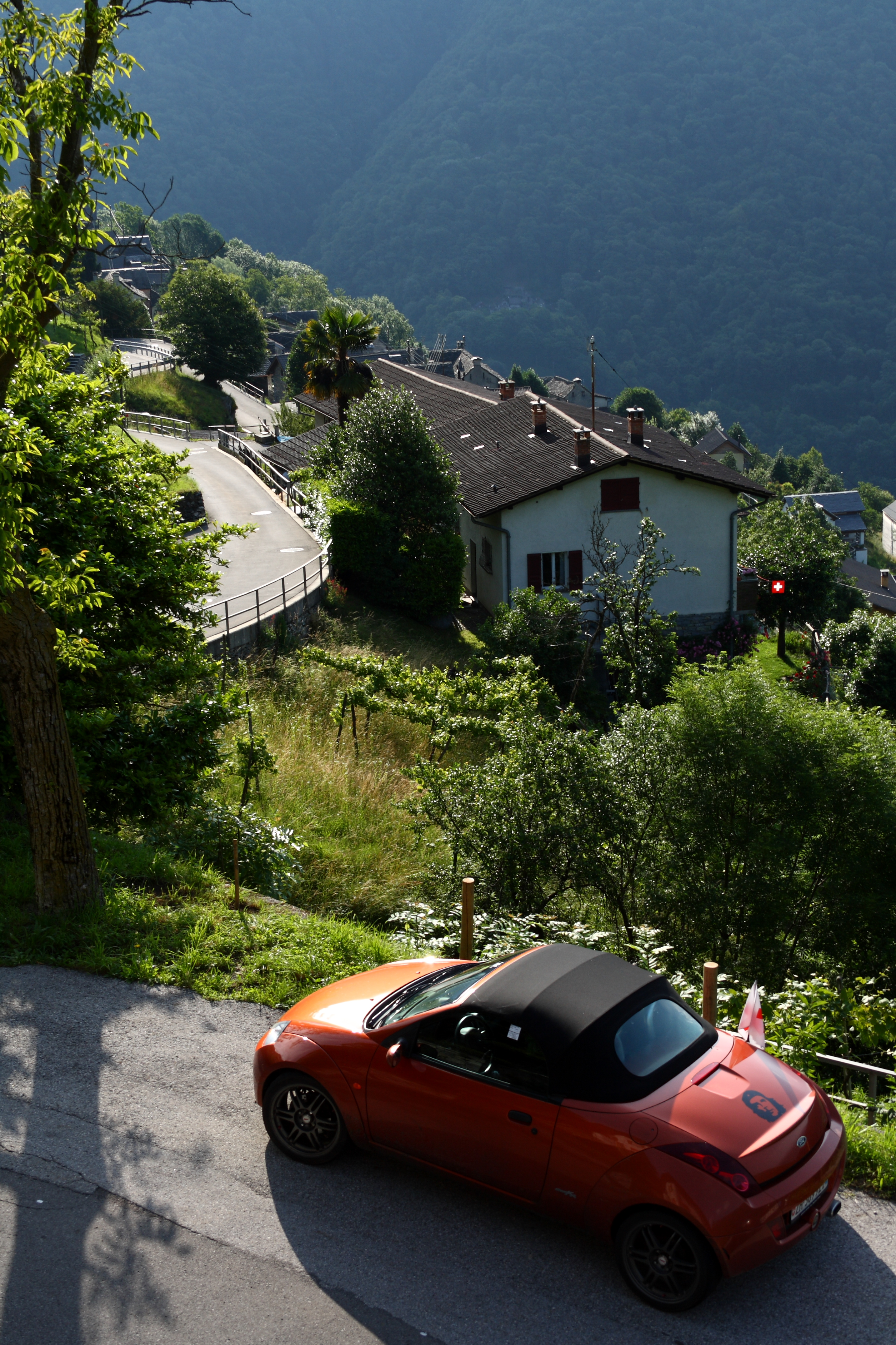 Streety @ Mercoscia